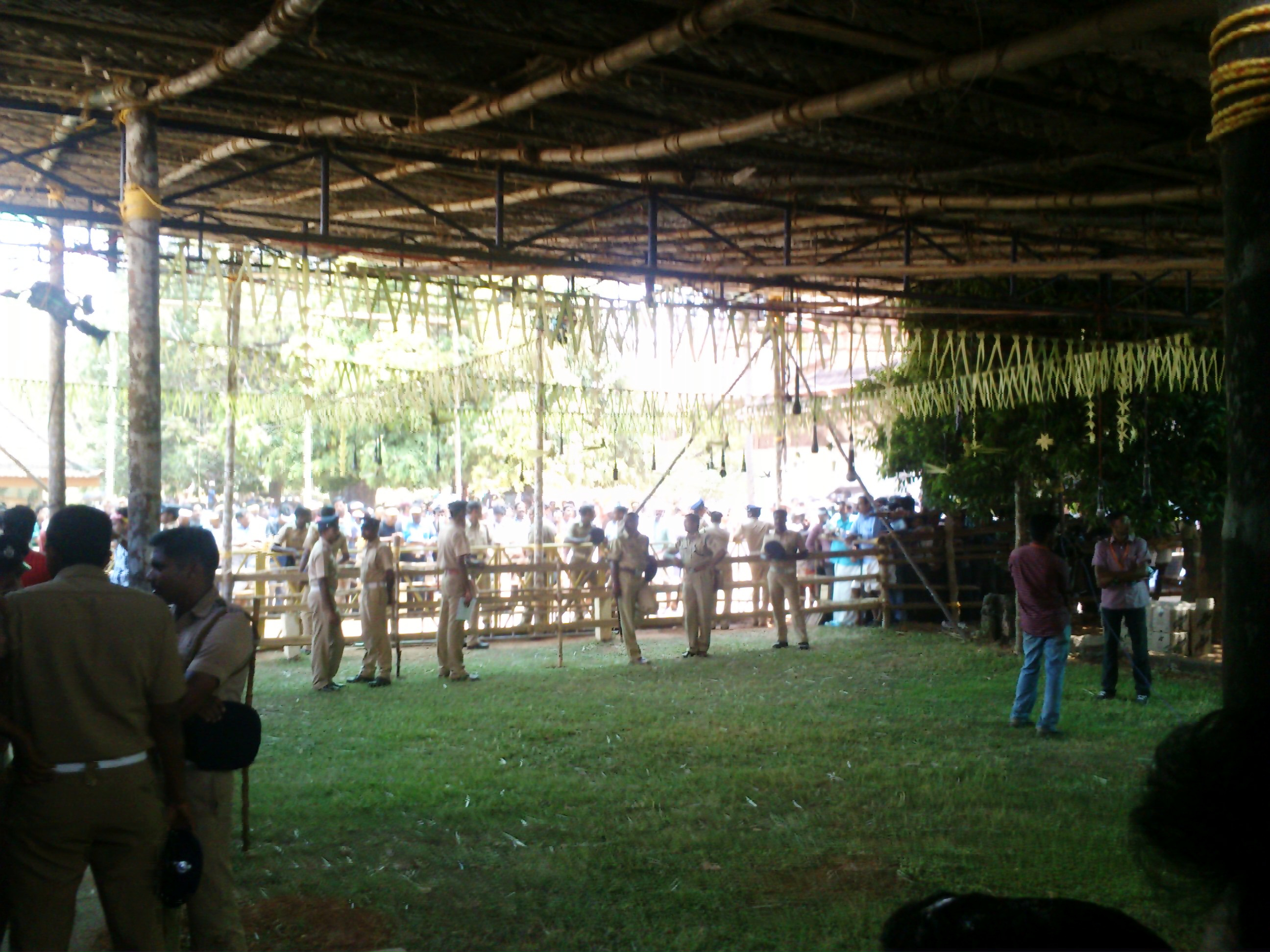 This media file is uploaded with Malayalam loves Wikimedia event - 3.